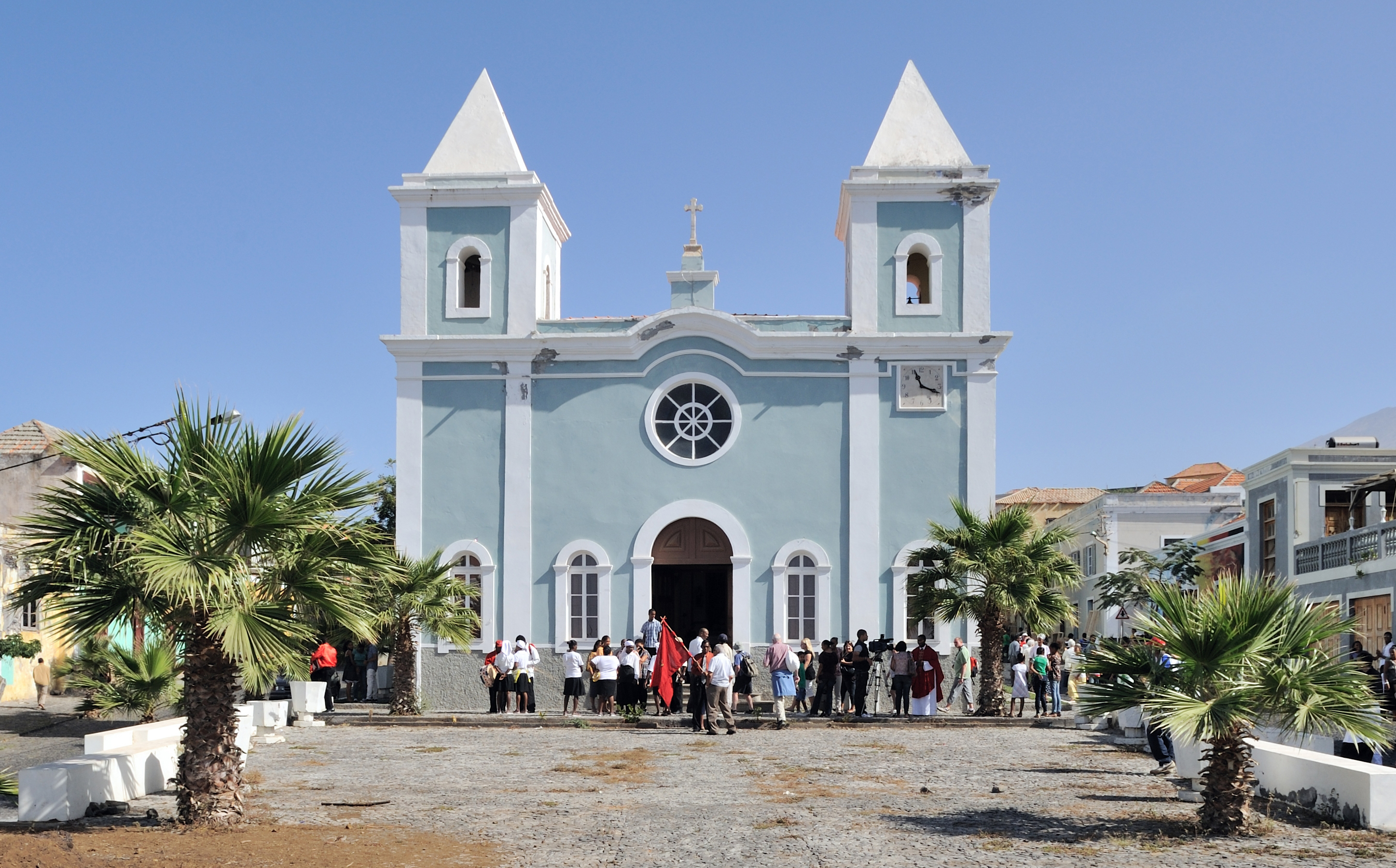 The church Nossa Senhora da Conceição à São Filipe, island of Fogo, Cape Verde.